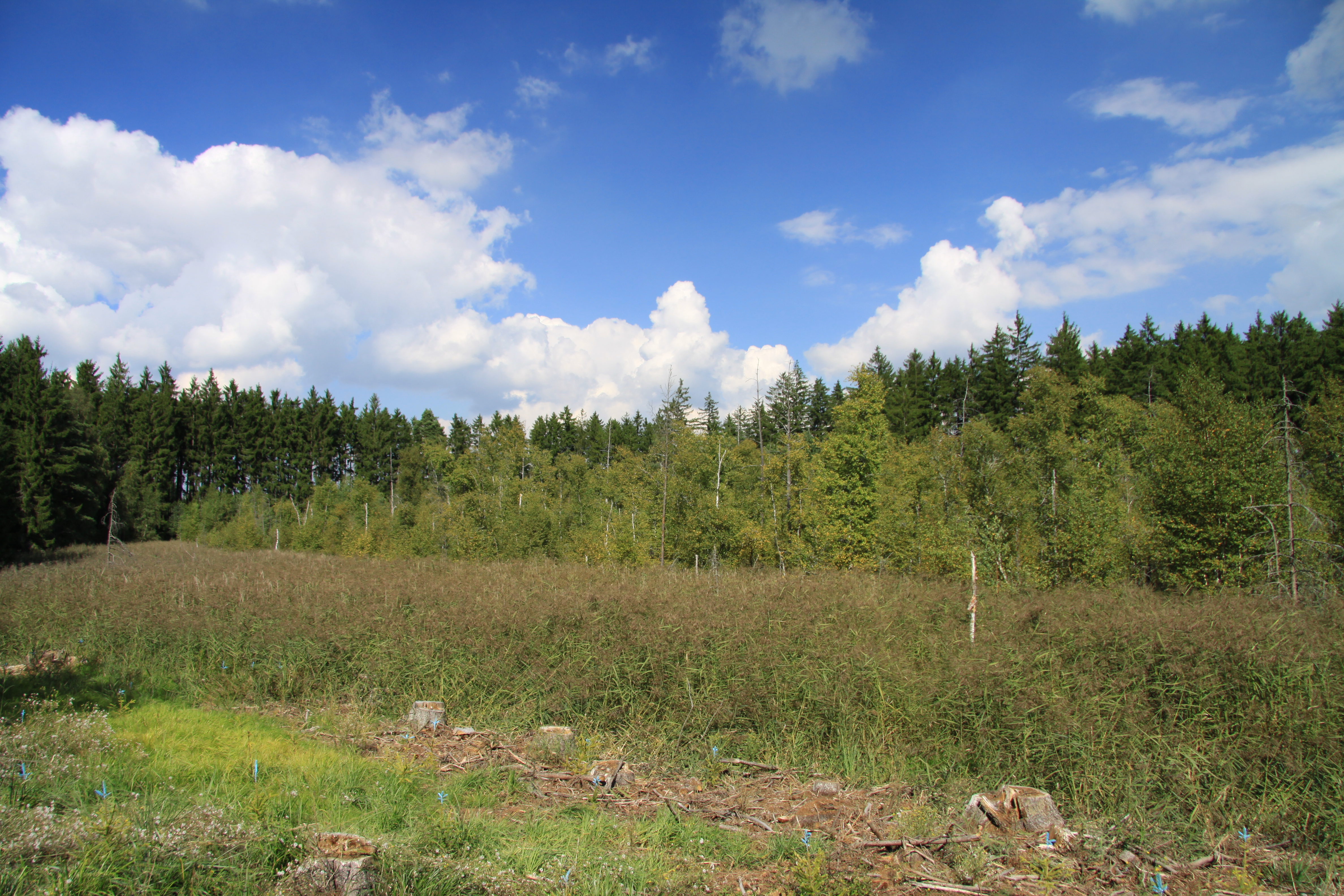 Natural monument Bachmač in Písek District, Czech Republic. This area is protected due to bog